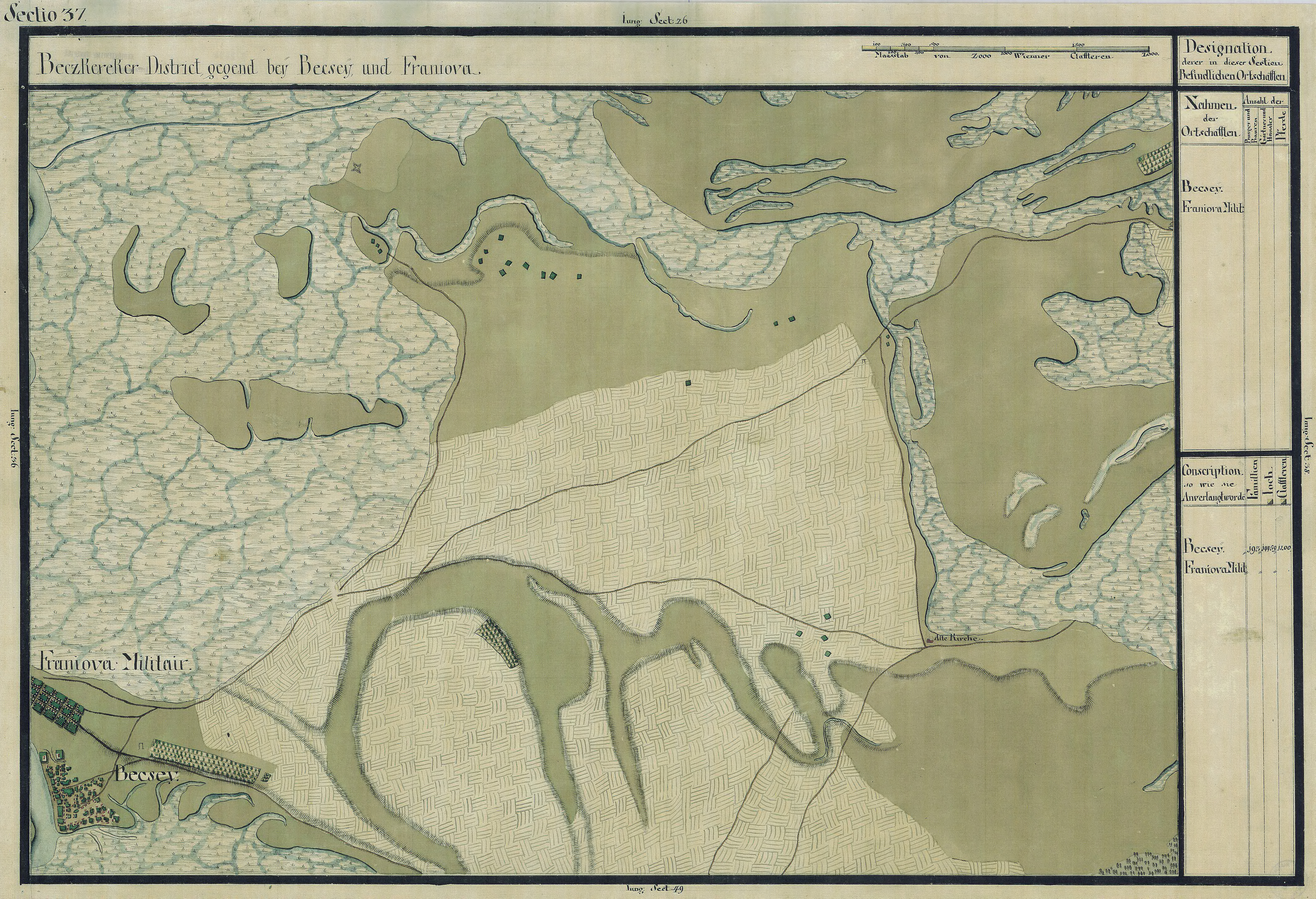 The Banat region in the cadastral maps: Josephinische Landesaufnahme, 1769-72. Josephinische Landaufnahme pg037